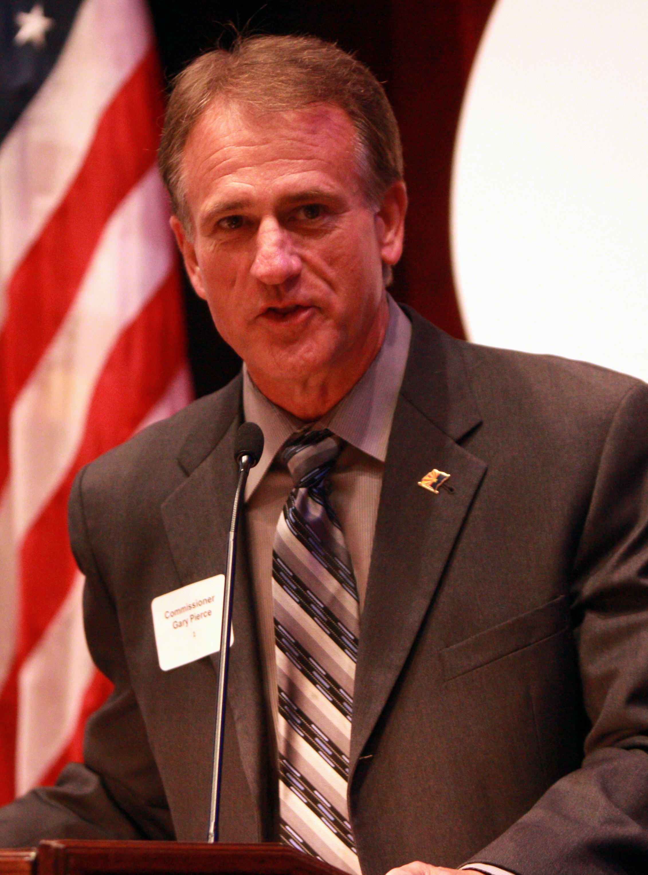 Gary Pierce speaking at an event in Scottsdale, Arizona.